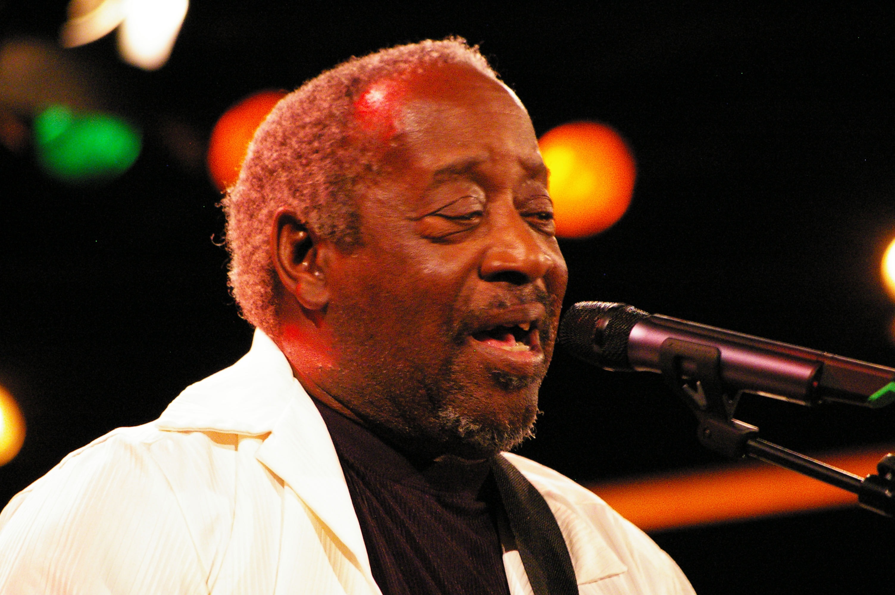 Guitarist Music Maker Revue